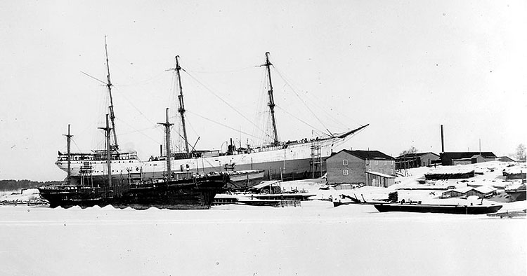 Full rigged ship Oldenburg under refitting at Uusikaupunki shipyard. She was later renamed Suomen Joutsen and served as a school ship for the Finnish Navy. Today a museum ship in Turku, Finland. The ship in front is another full rigged ship, Osmo.